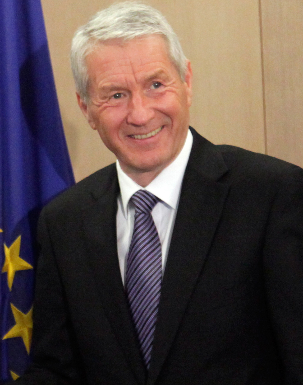 Thorbjorn Jagland